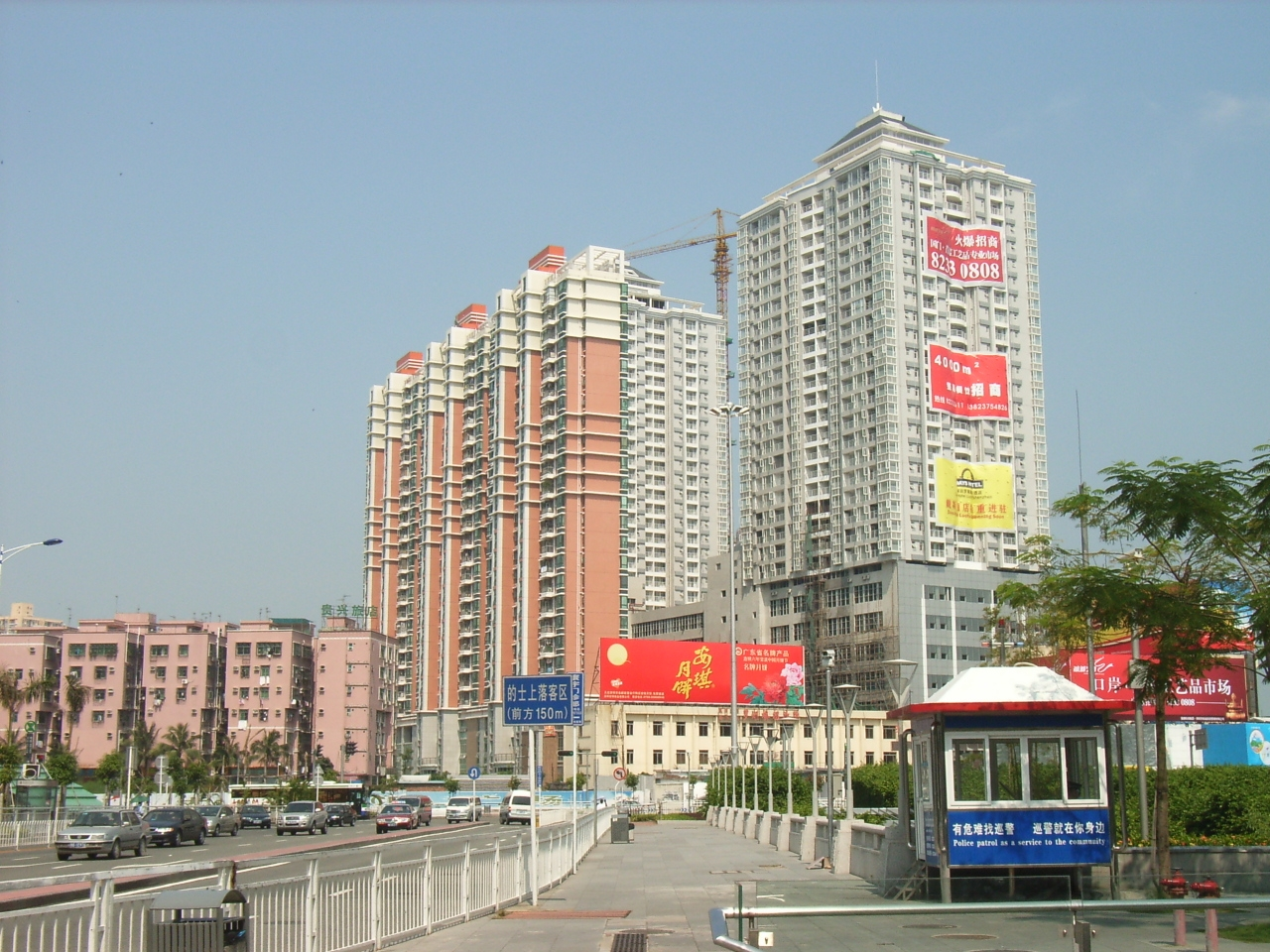 深圳地鐵 沿線各站風景 Shenzhen, China (Author is SAMZ).